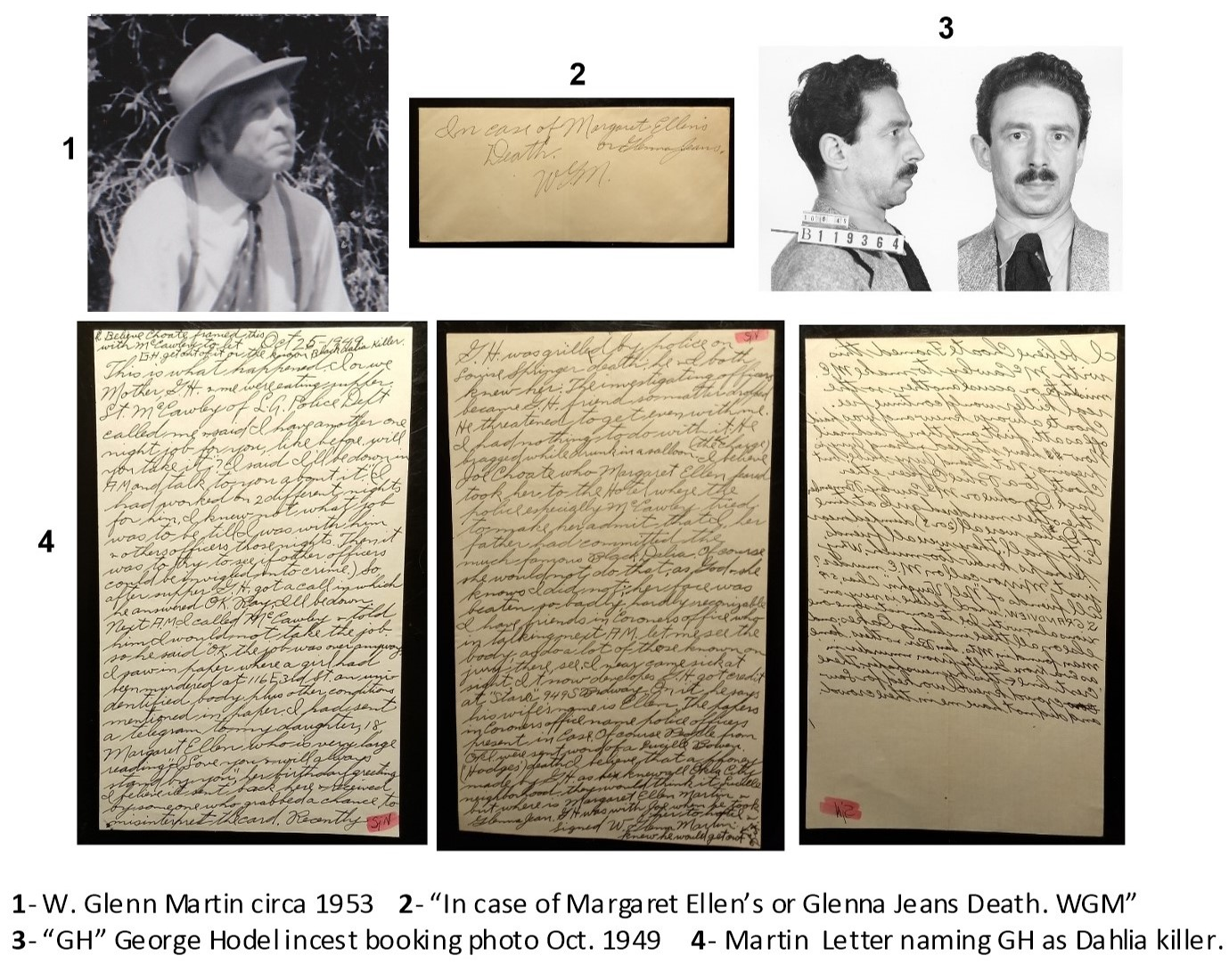 LAPD Undercover Informant W. Glenn Martin Letter written October 26, 1949